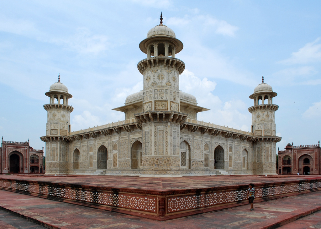 Itmad-ud-Daula, Agra